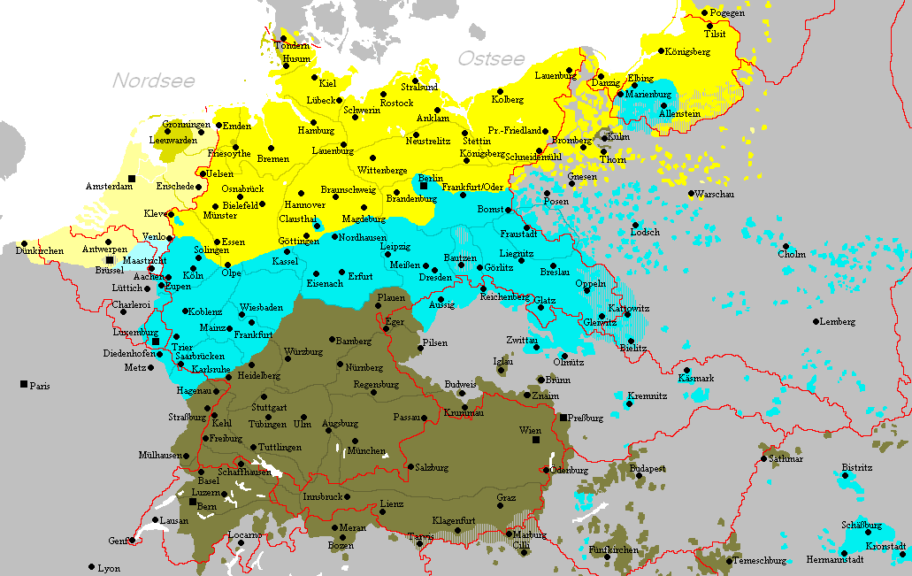 Map with dialects in Germany before World War 2, detailed description see below.